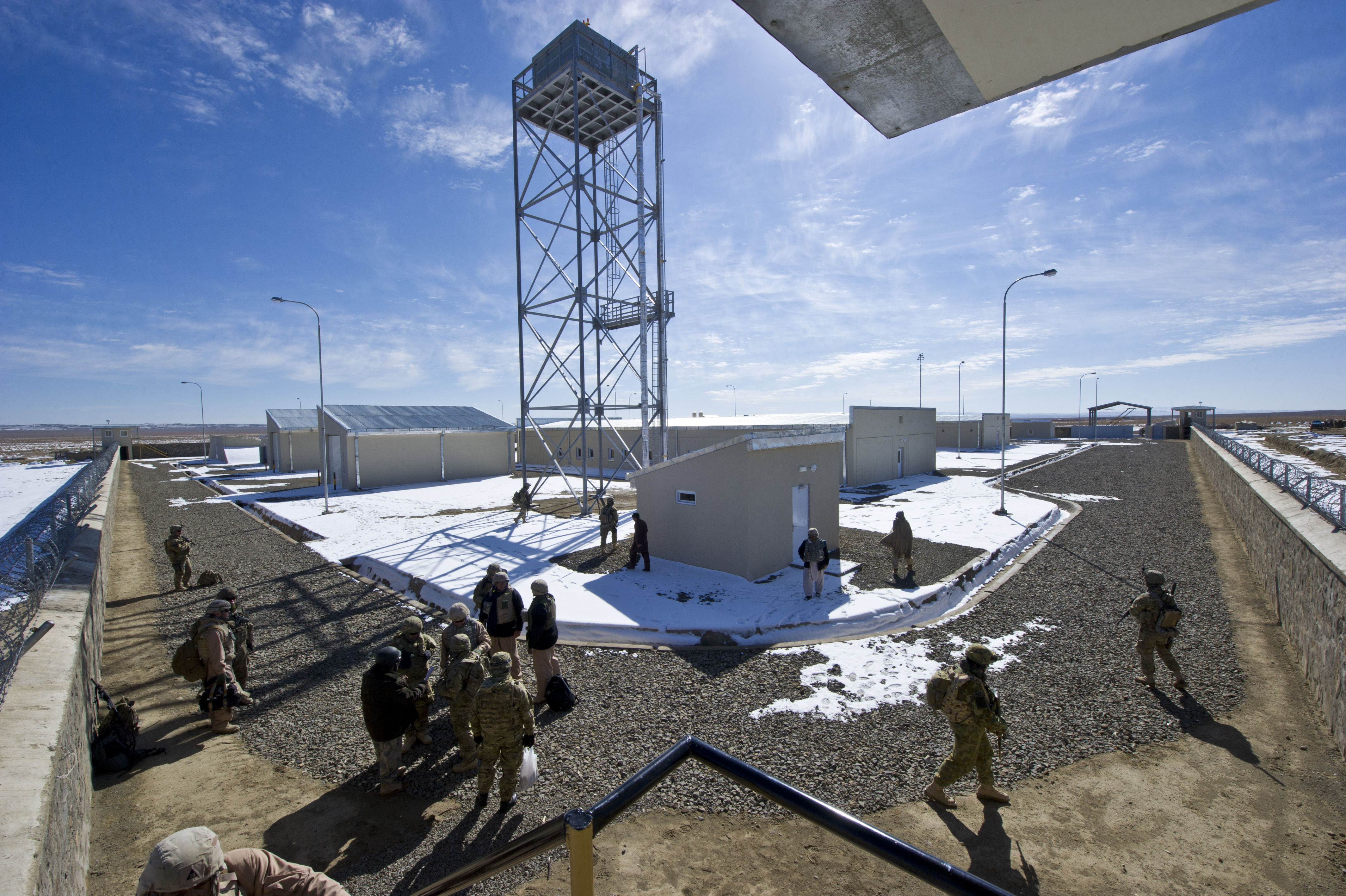 Afghan Border Police garrison inspections. An overview of the Ala Jirga border police garrison. (USACE Photo/Mark Ray)